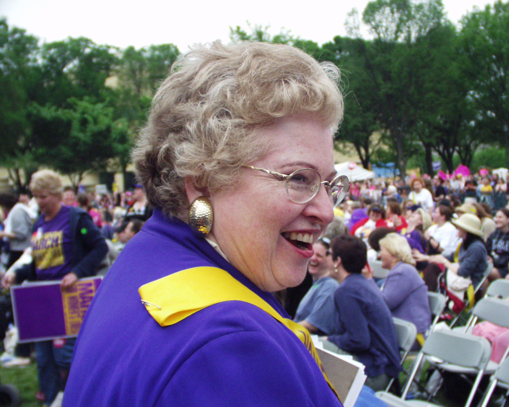 Attorney and women's rights activist, Sarah Weddington, spoke at the 2004 March for Women's Lives in Washington DC. Photograph by Patty Mooney of San Diego, California